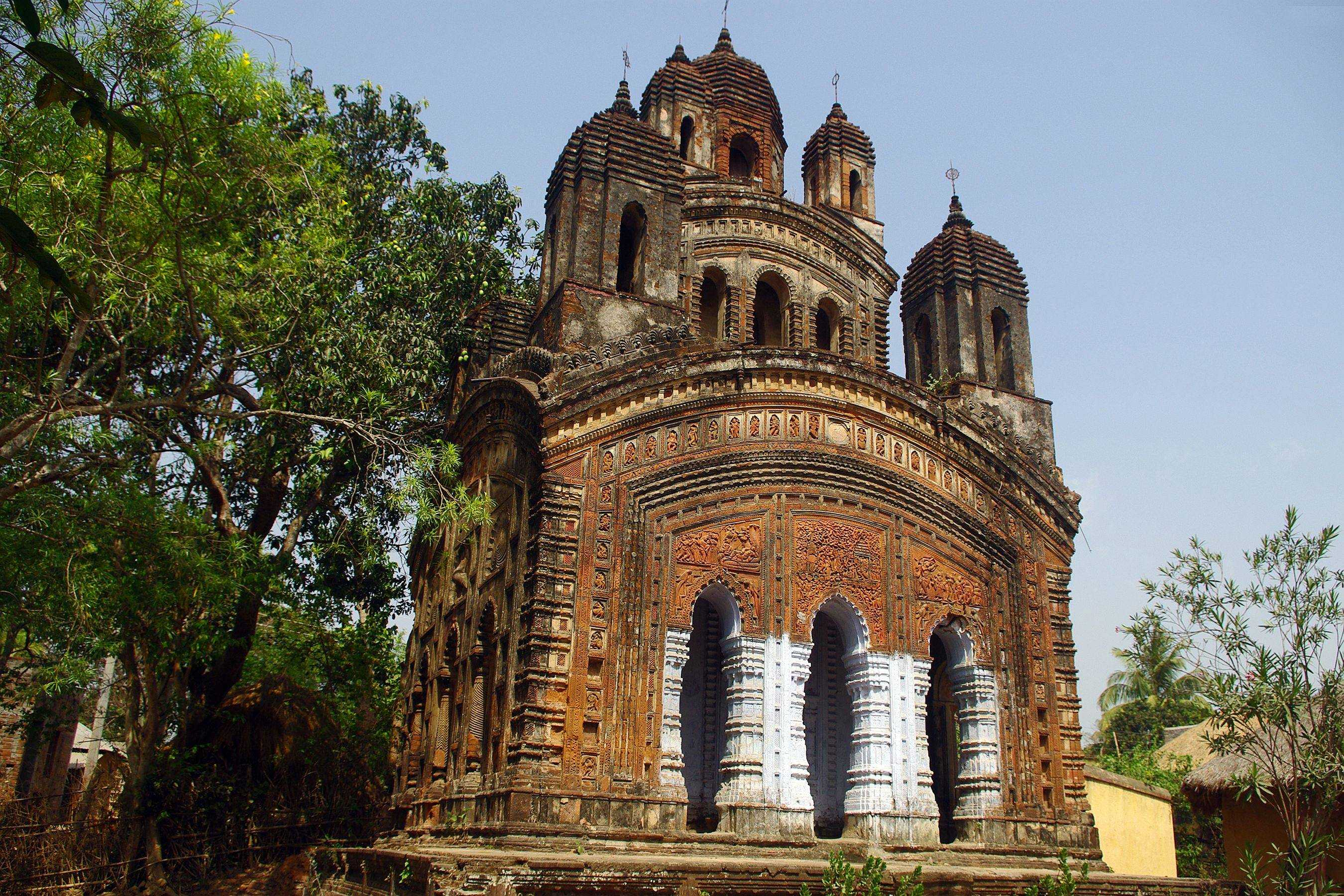 Terracotta Nava Ratna Temple of Mandal family Mejo Taraf